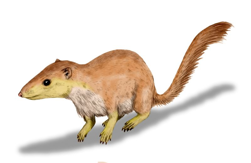 Purgatorius unio, from the Late Paleocene of North America, believed to be the earliest primate, pencil drawing, digital coloring